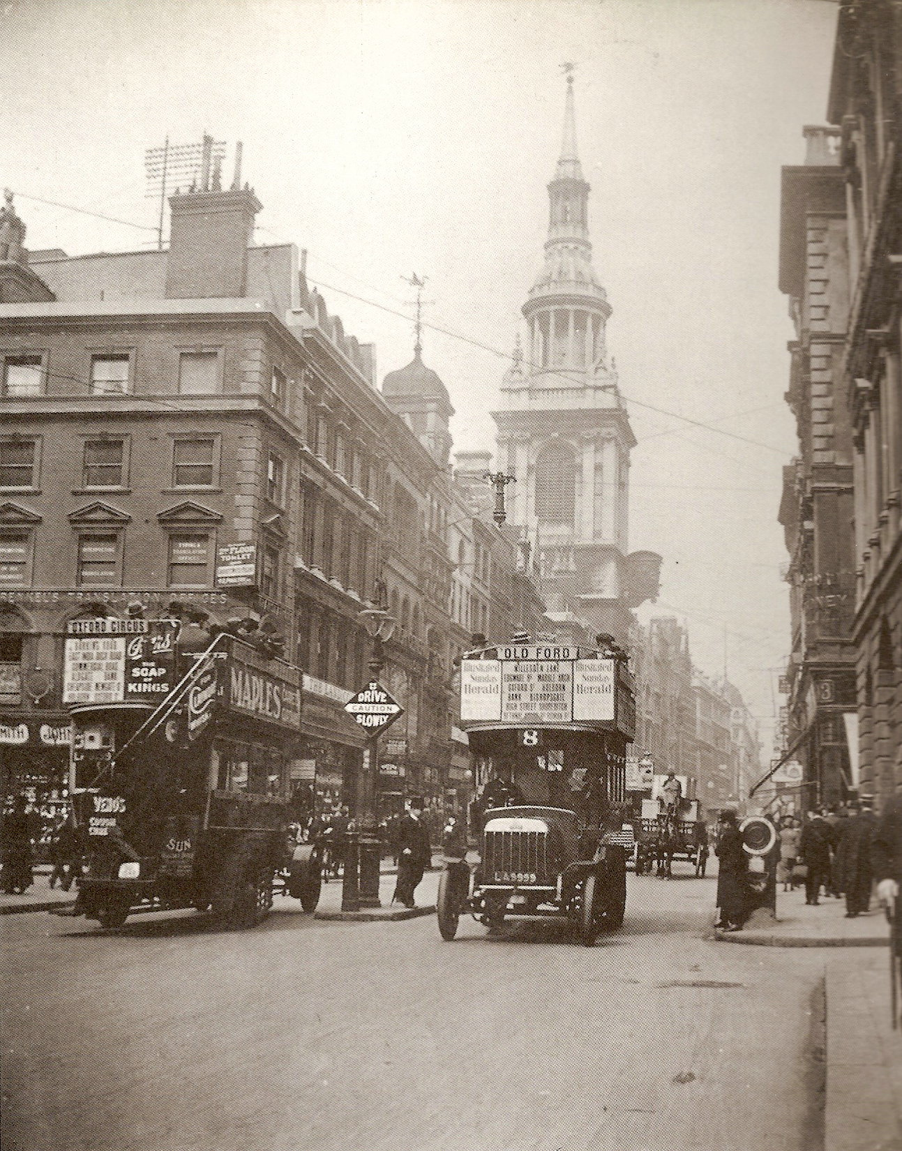 Cheapside, with the Church of Saint Mary le Bow in the background and open top motor buses on the road in 1909.